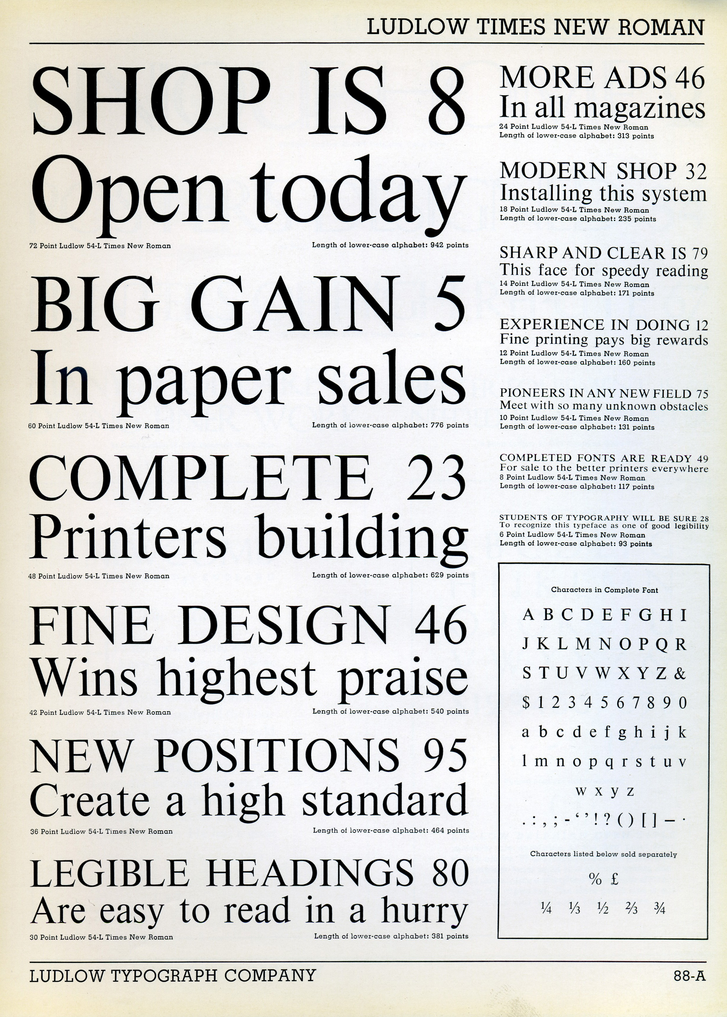 from